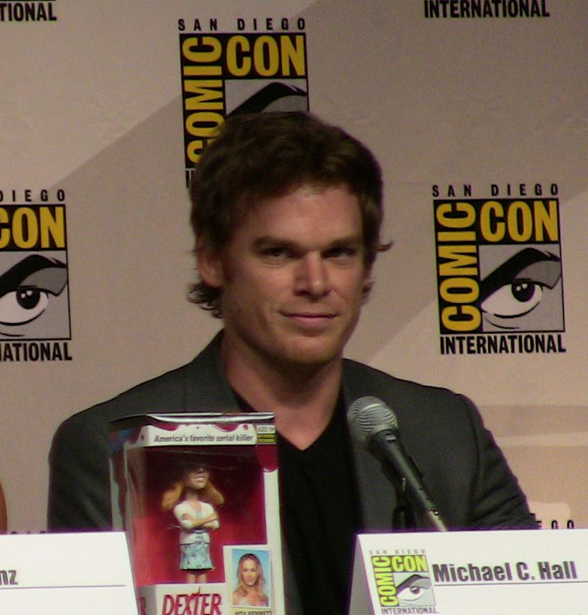 Actor Michael C. Hall – Comic-Con 2009 - "Dexter" Panel - San Diego - July 23, 2009.